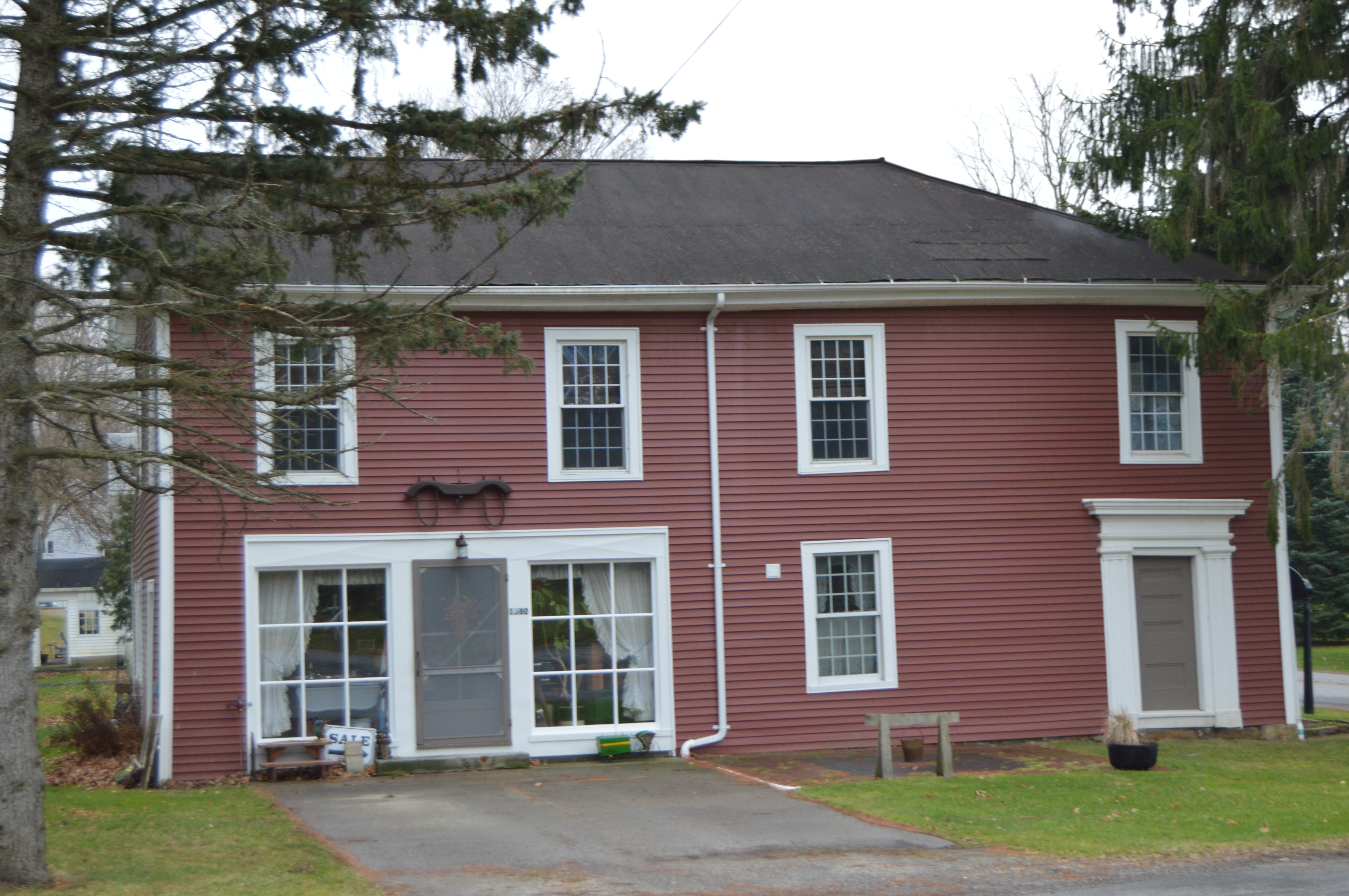 Front of the Macksville Tavern, located at the junction of Snyder and Peru Olena Roads at Peru in Peru Township, Huron County, Ohio, United States. Built in 1836, it is listed on the National Register of Historic Places.